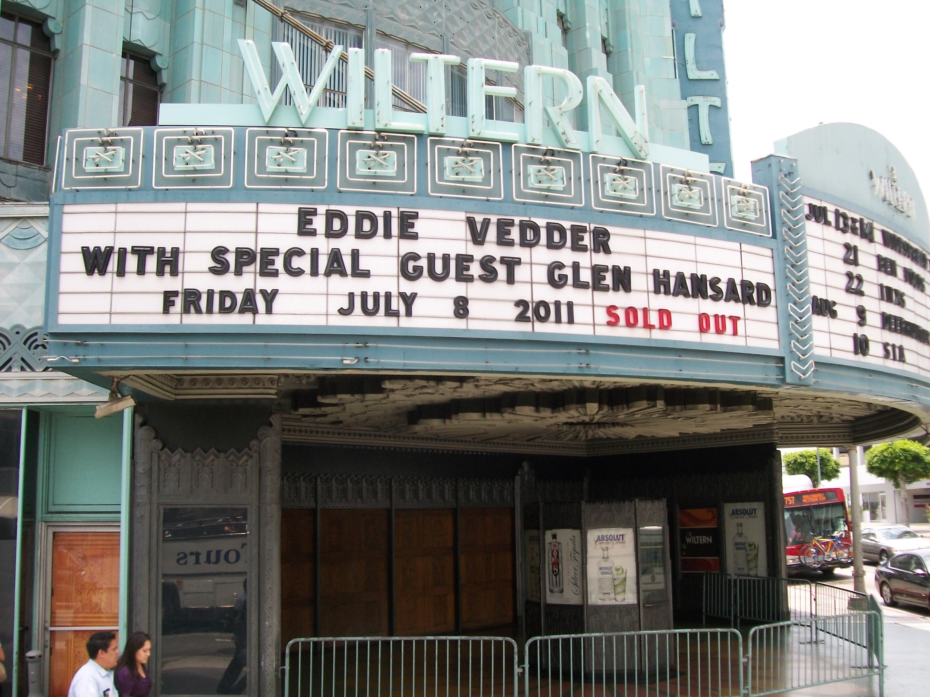 Picture I took of the Eddie Vedder sign outside the Wiltern Theatre, Los Angeles, California.